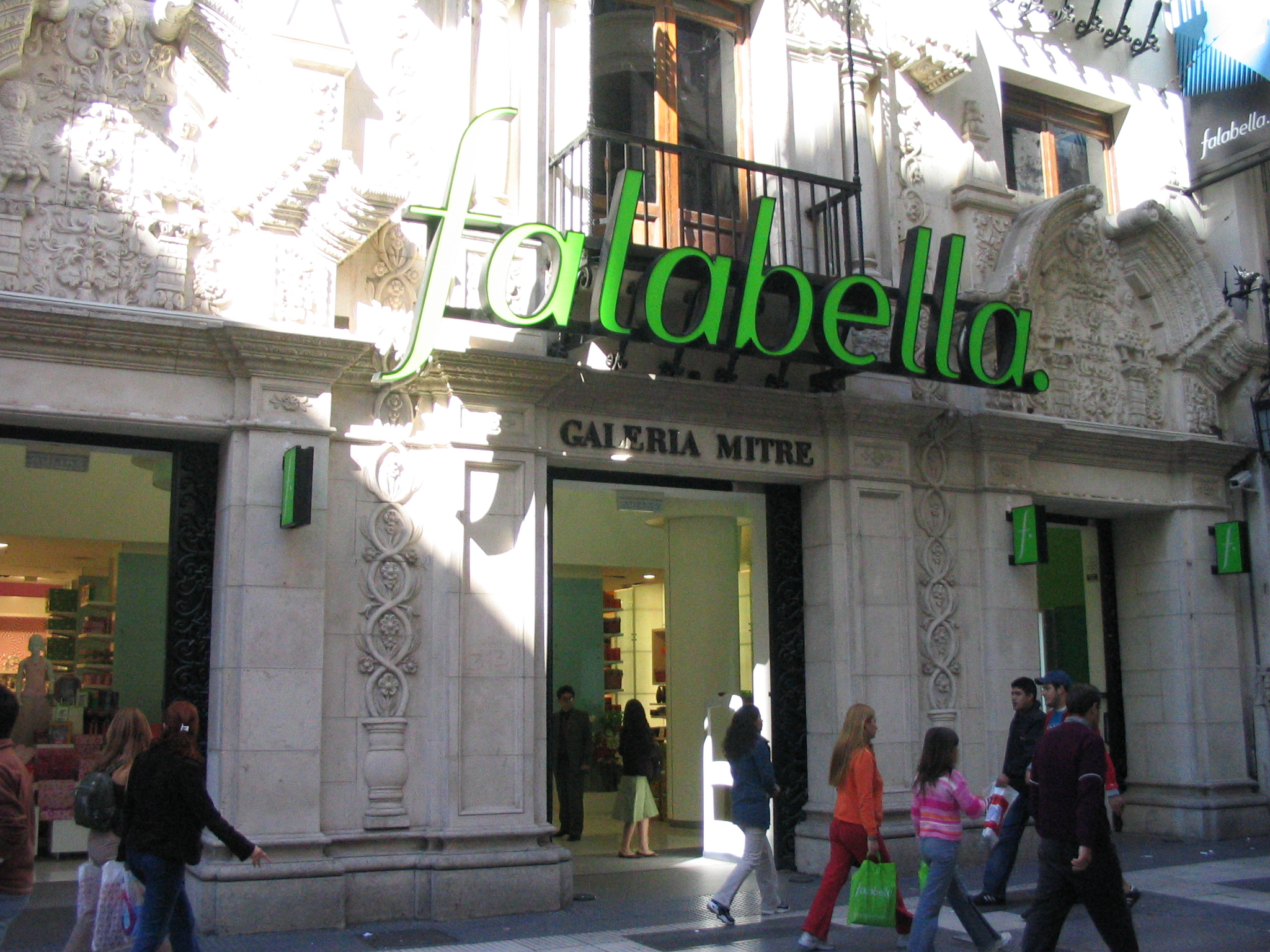 Chilean department store retailer Falabella in its Florida Street location, Buenos Aires. The Plateresque building was inaugurated in 1929 as the headquarters of La Nación, a leading news daily.